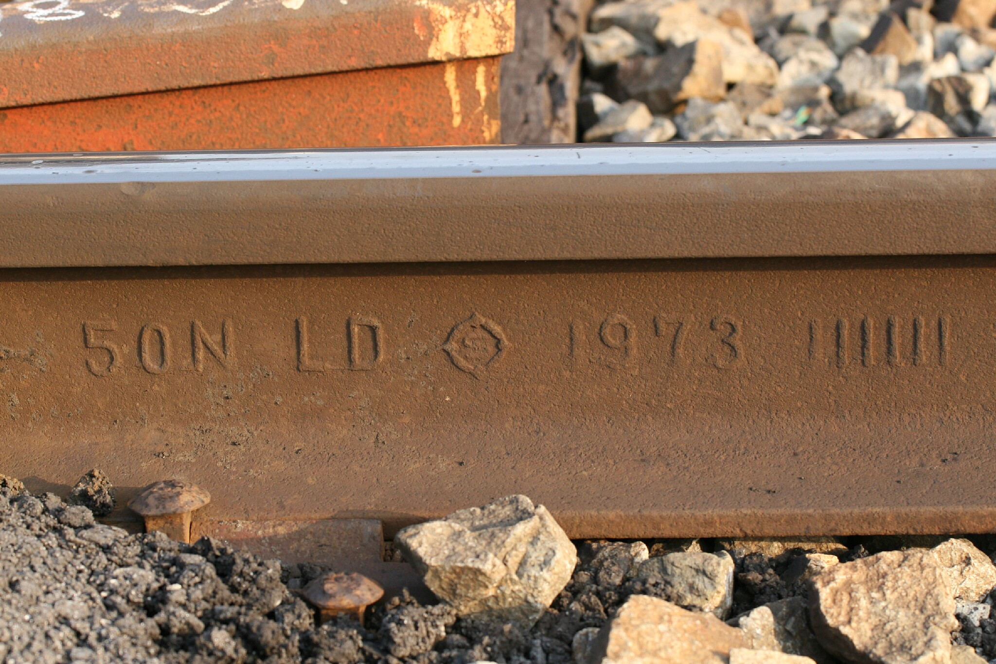 A rollmark of 50N rail.